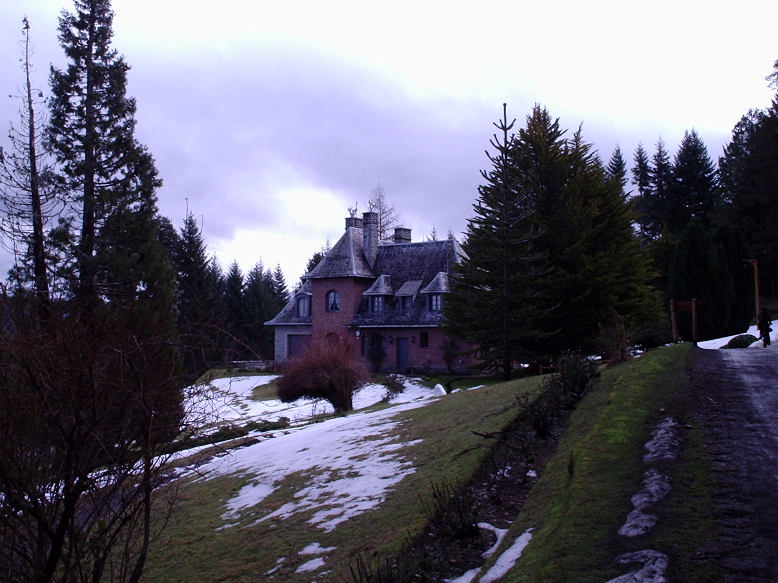 El Messidor, from the gardens